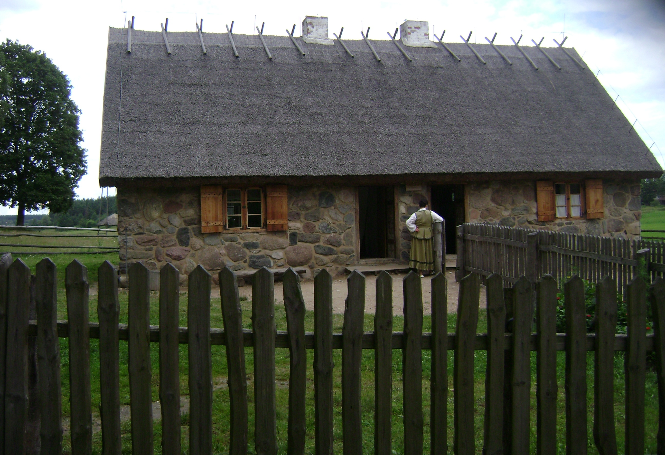 Poland. Olsztynek. Open air museum